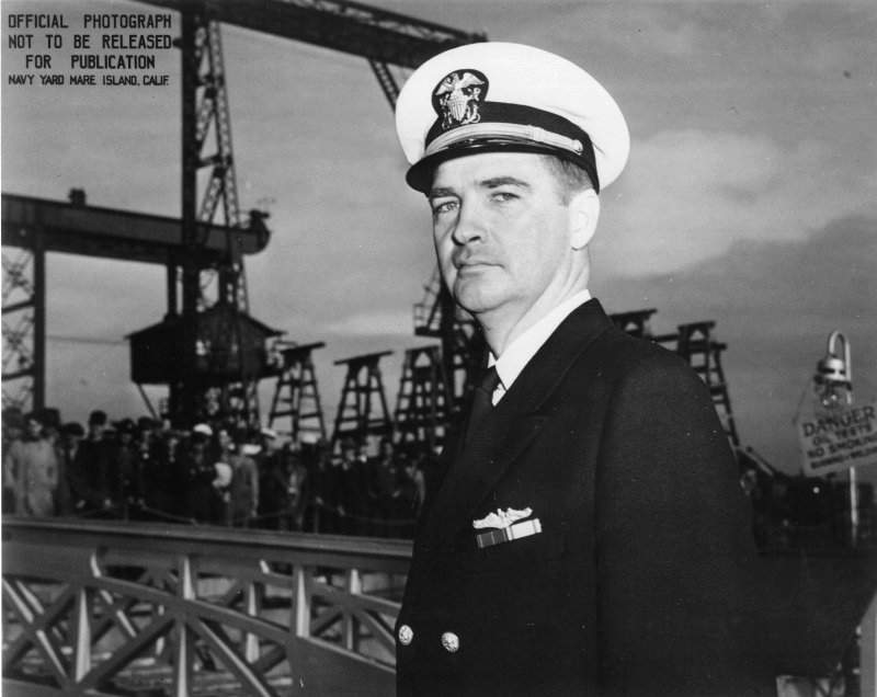 Photo of CDR Creed C. Burlingame, USN, first commanding officer of the USS Silversides (SS-236) at the submarine's commissioning ceremony at Mare Island, 15 December 1941.